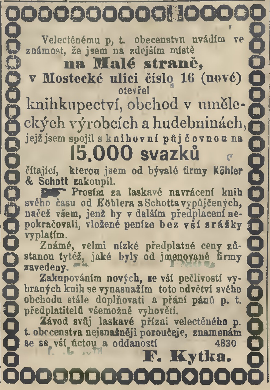 Advertisement of a newly opened bookstore and library of František Kytka in Prague (present-day Czech Republic).